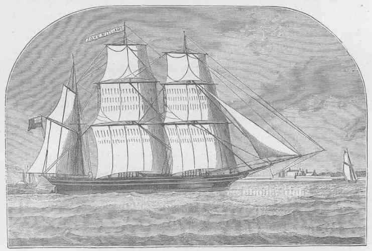 The John Williams (LMS, 1869, p.36) Ship. John Williams (ship, built in 1865). The second John Williams, also paid for by children’s subscriptions, was a considerably bigger vessel, a barque of 296 tons gross, built by Hall, of Aberdeen, the famous clipper shipbuilder. In 1866, while still a new ship, she ran on a reef off Aneityum, in the New Hebrides. She was salvaged and repaired at Sydney, later on 9 January 1867, when she was wrecked on Savage Island (Samoa).[1][2]